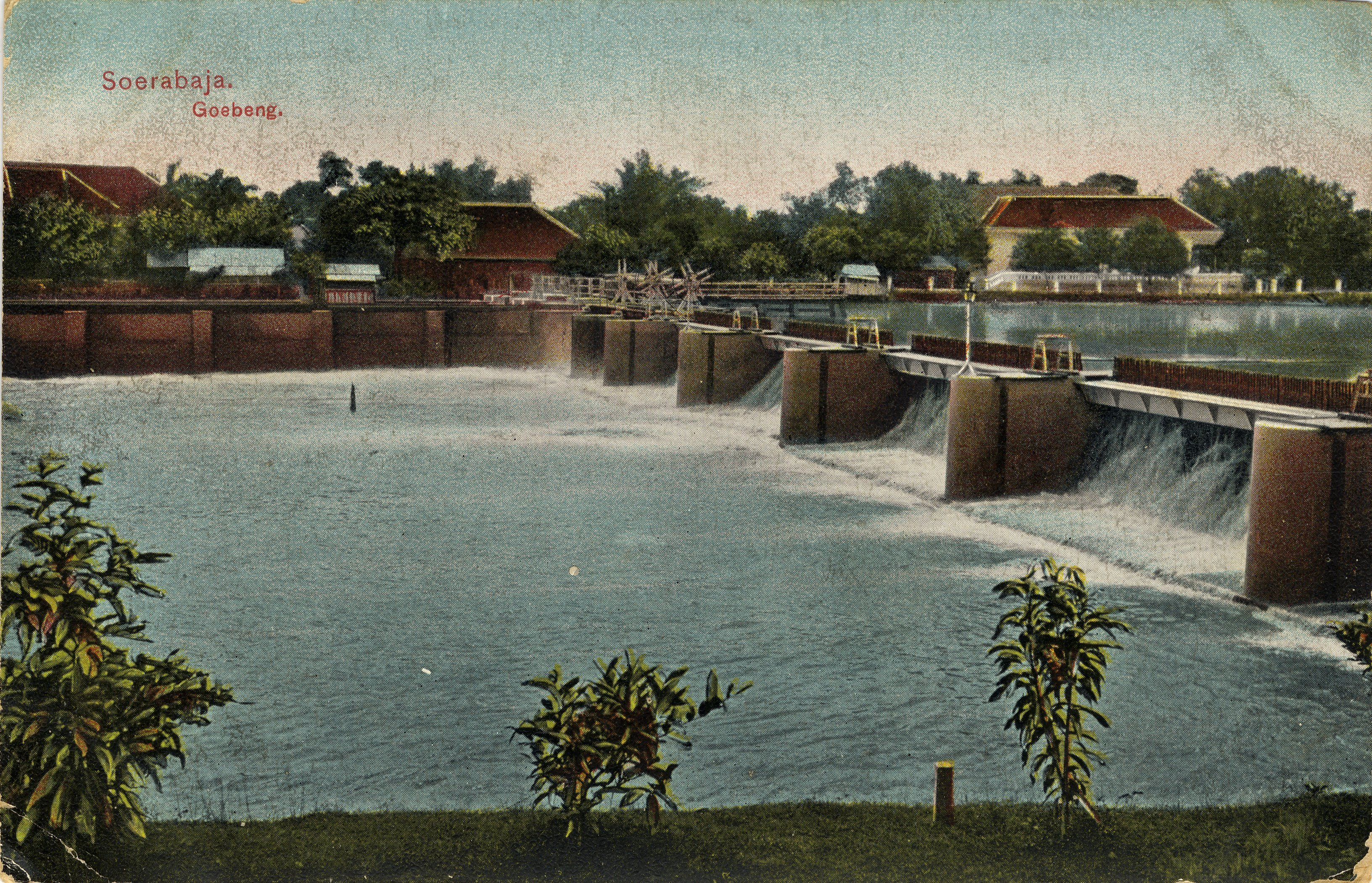 Picture postcard of the sluice/locks of Gubeng, Surabaya, Indonesia.